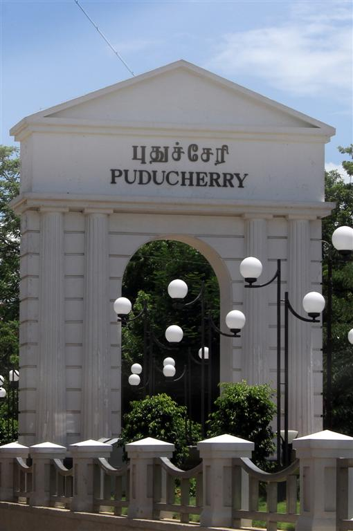 What was originally Pondicherry is now renamed to Puducherry